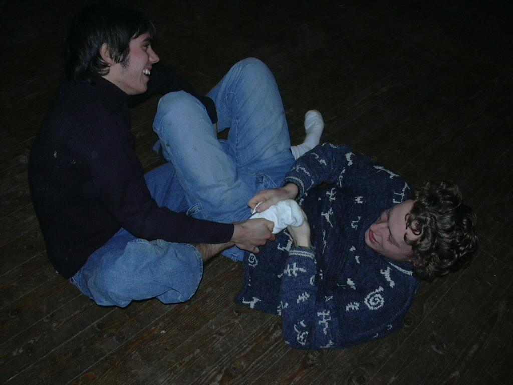 Two men engaging in sock wrestling on the floor.